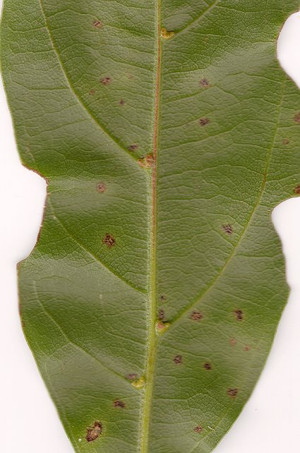 Endiandra discolor leaf with four domatia, from Ourimbah